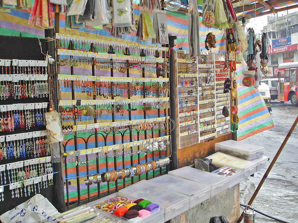 Jewellery stall on Bandra Linking Road in Mumbai